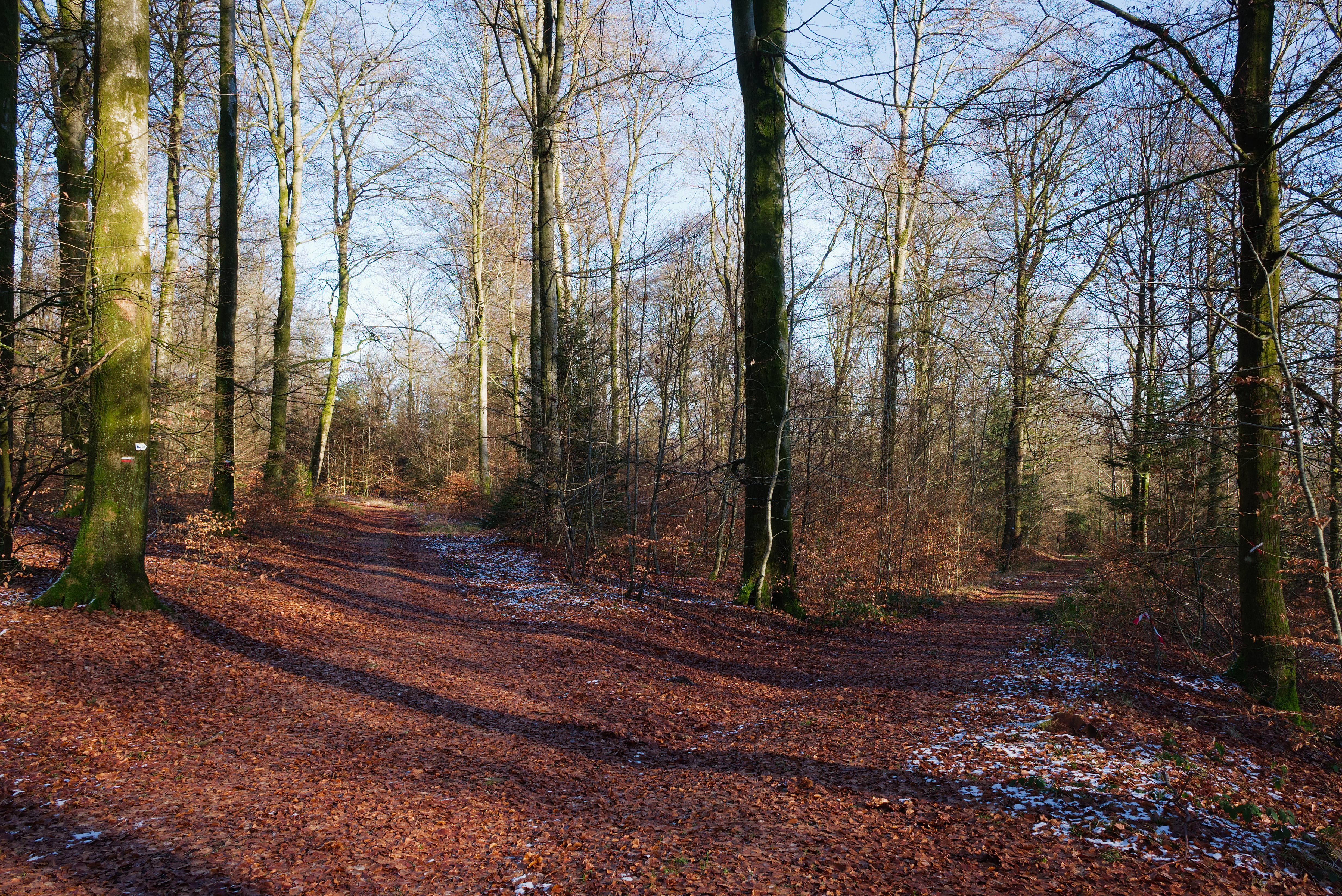 Sharp intersection of multiple trails in Parc Naturel de Gaume, Florenville. The left path follows the GR16 / GR129 / E3.